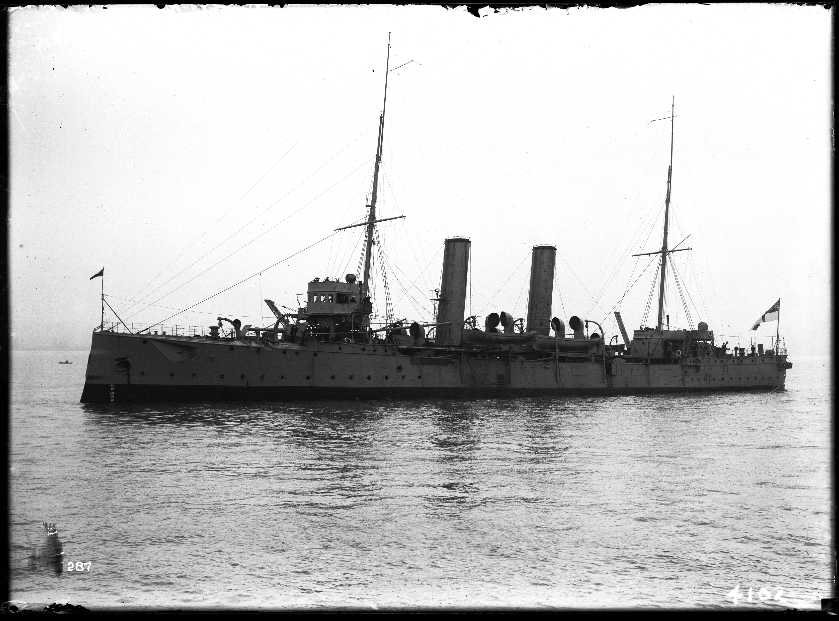 H.M.C.S. Rainbow in Vancouver harbour VPL 3132 Date: 1914 Photographer/Studio: Frank, Leonard Topic: Ships, World War, 1914-1918, Military history Organization: Rainbow (Ship) Location: British Columbia - Vancouver Harbour More information on our historical photograph collection